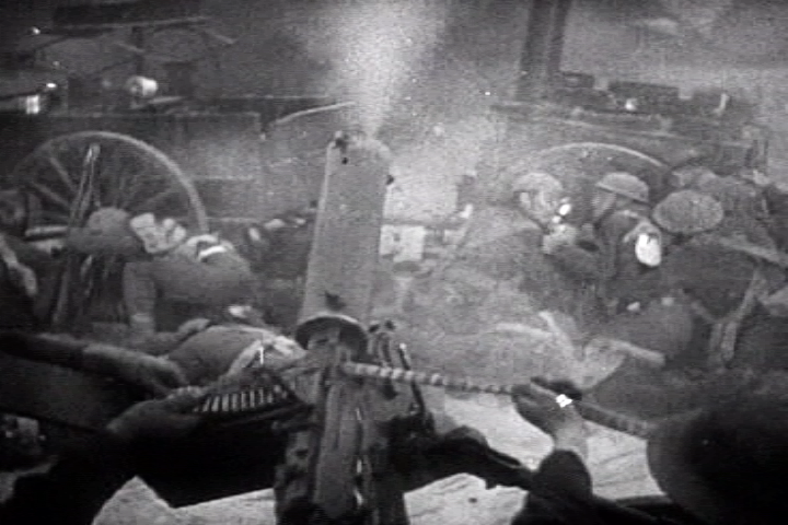 British infantry taking cover at Dunkirk beach (France, 1940). Screenshot taken from the 1943 United States Army propaganda film Divide and Conquer (Why We Fight #3) directed by Frank Capra and partially based on, news archives, animations, re-staged scenes and captured propaganda material from both sides.